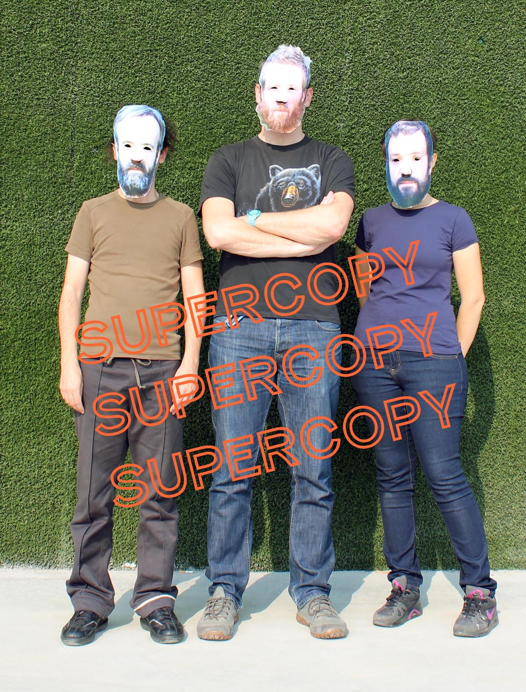 "Supercopy" of the artist collective SUPERFLEX